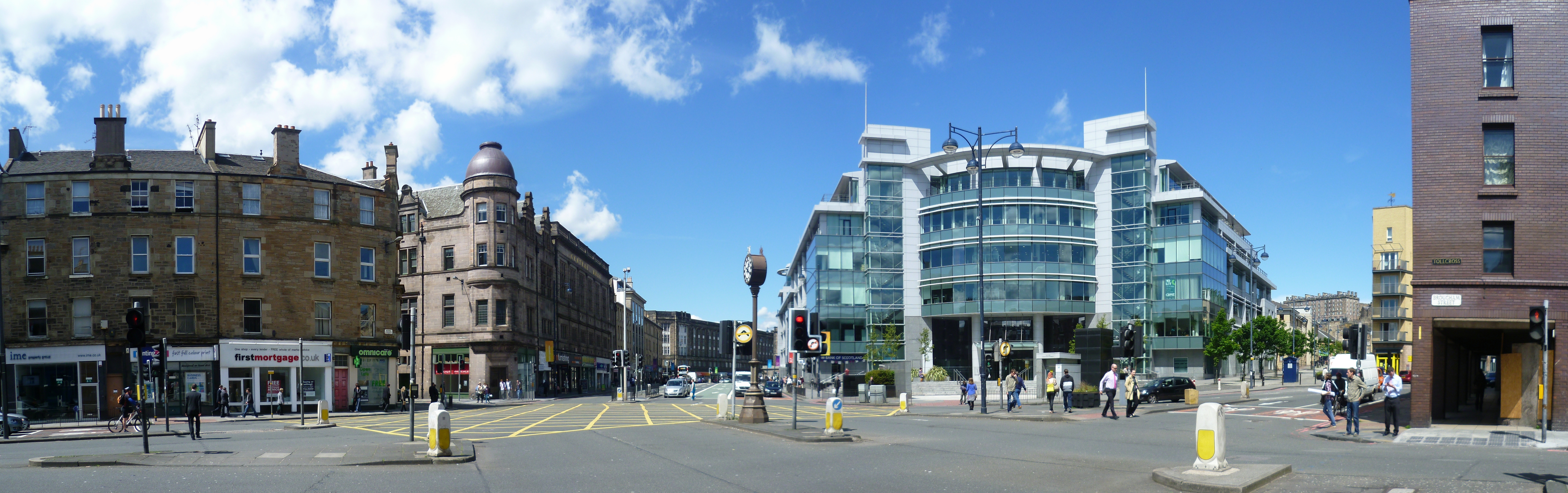 Tollcross, Edinburgh, looking north (composite)